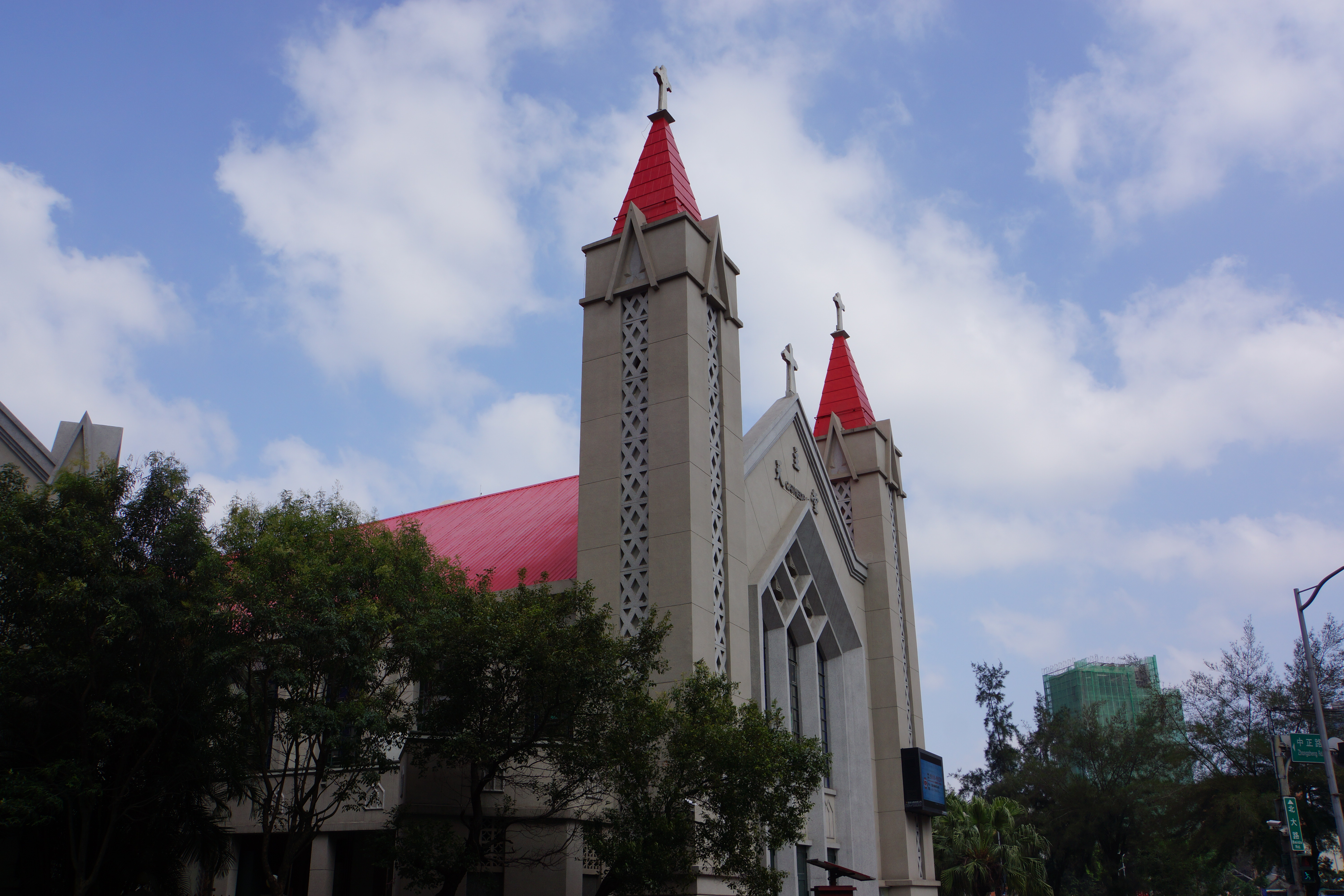 天主教北大教堂 Xinzhu Catholic Cathedral